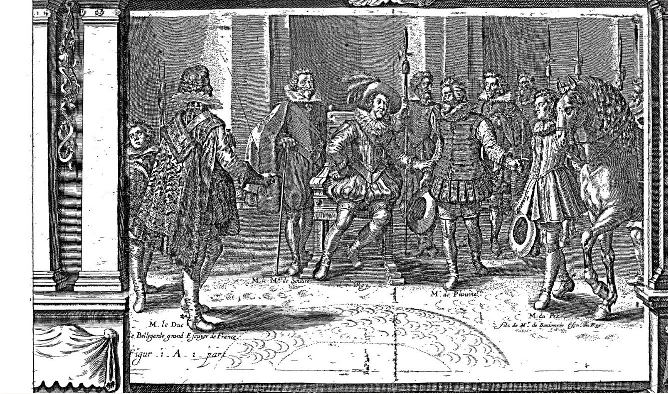 Antoine de Pluvinel giving a lesson to Ludwig XIII